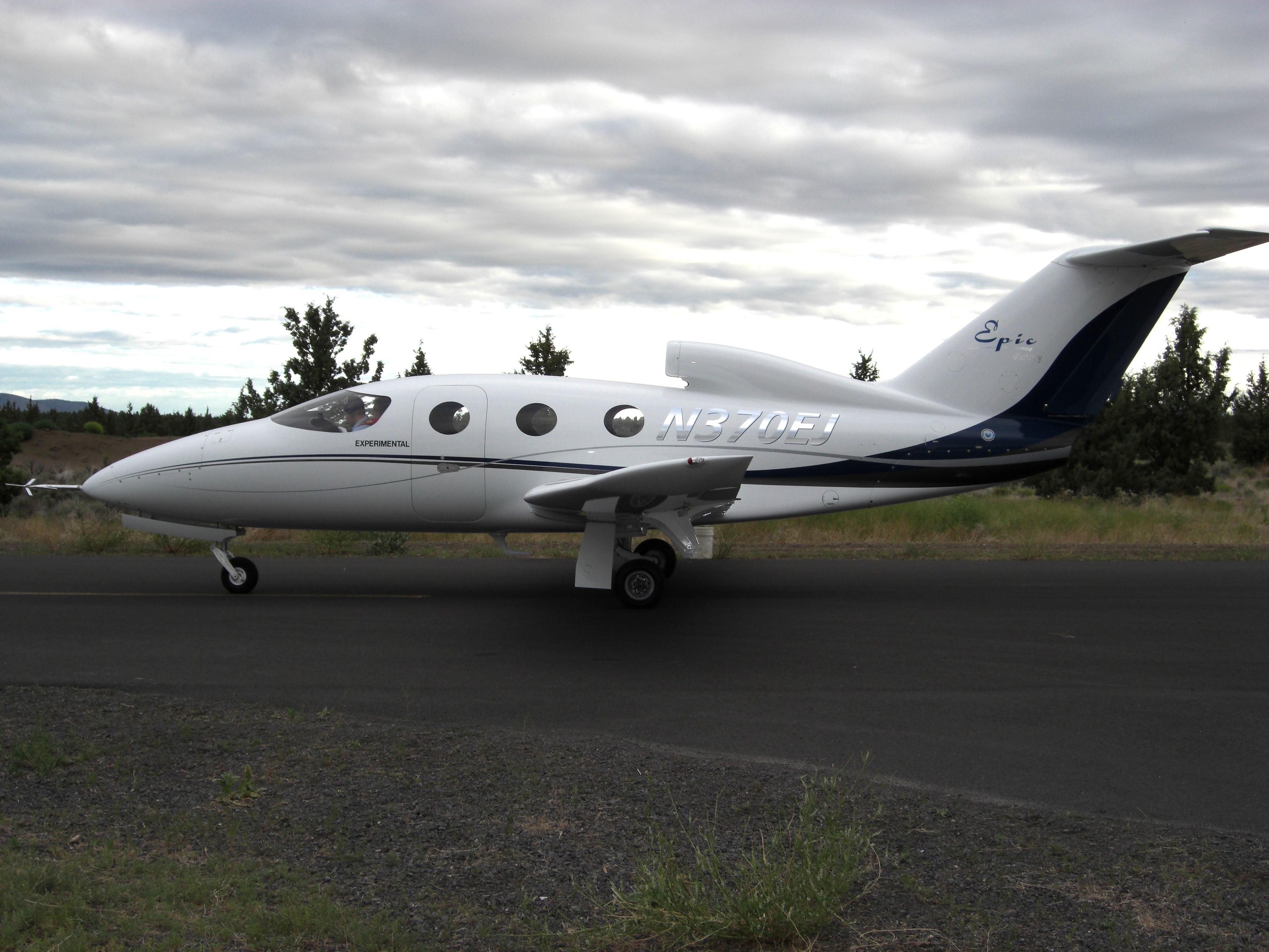 Epic Victory N370EJ at Epic aircraft facility in Bend, OR. Picture taken before the first test flight of this prototype aircraft